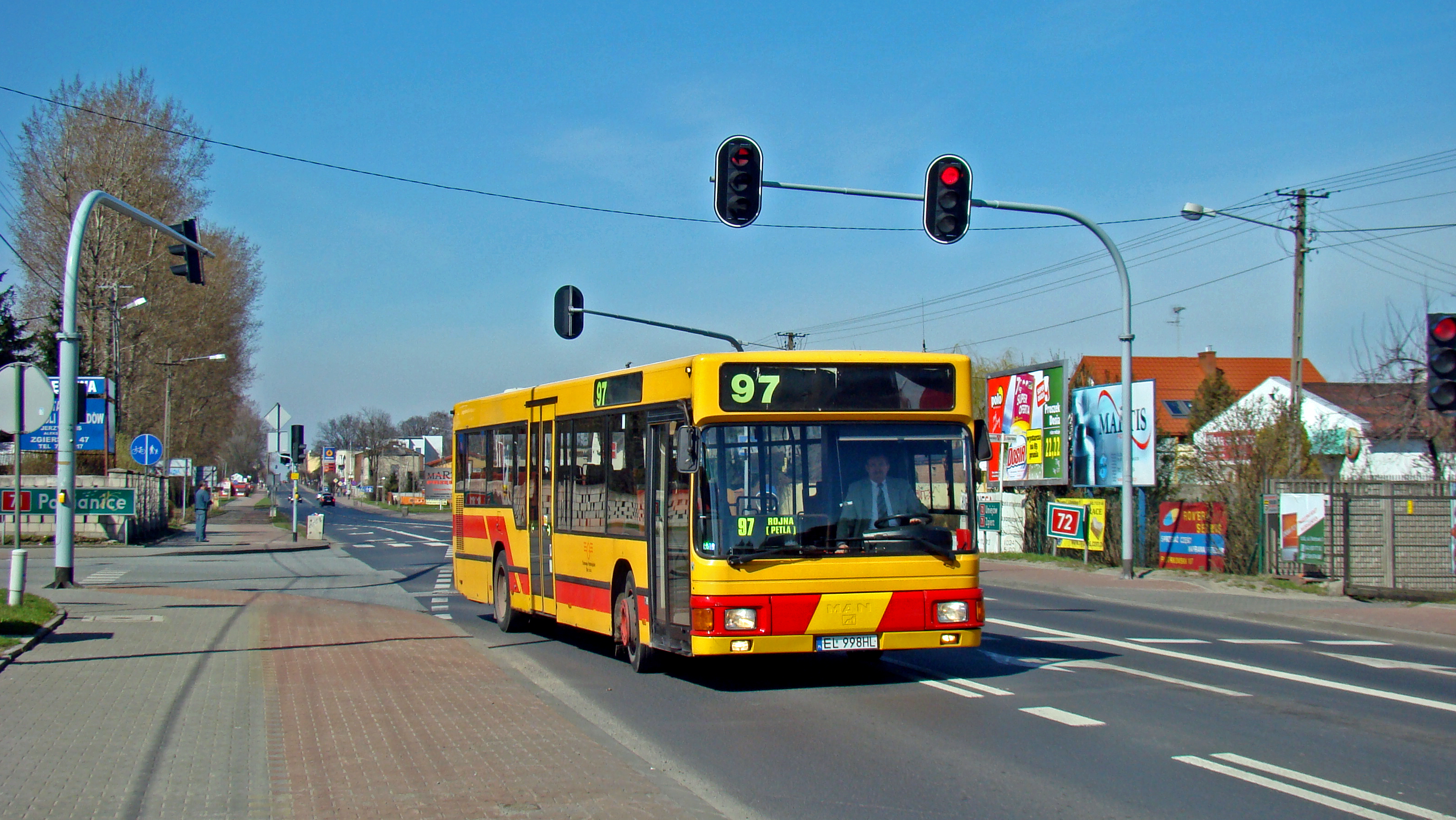 Gräf & Stift NL 202 bus (reg. EL 998HL) owned by Tramwaje Podmiejskie operator (Łódź) in Aleksandrów Łódzki, Poland.